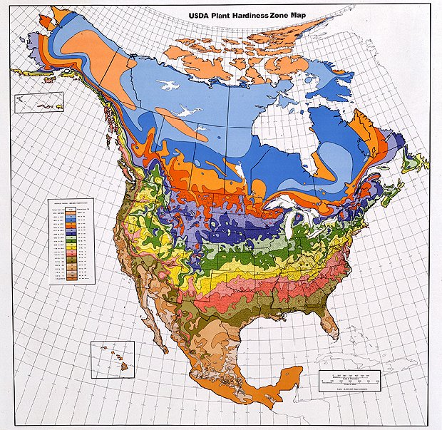 USDA Plant Hardiness Zones, based on climate studies